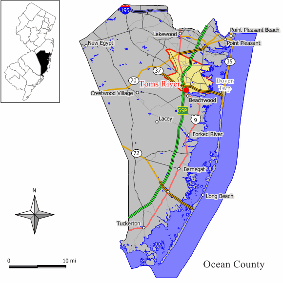 Source: Jim Irwin Original work by Jim Irwin, December 2005.